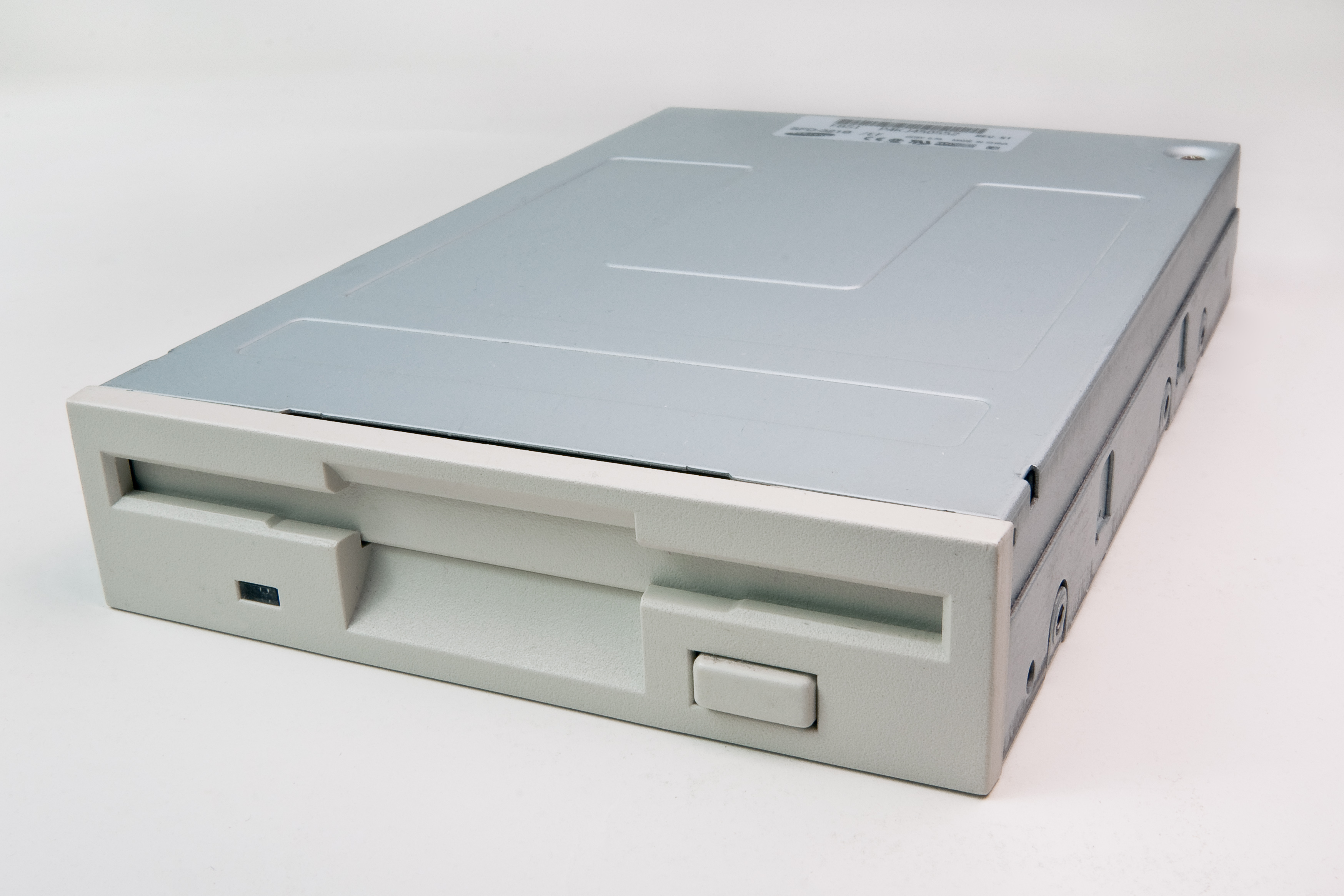 3.5" floppy disk drive Samsung SDF-321B